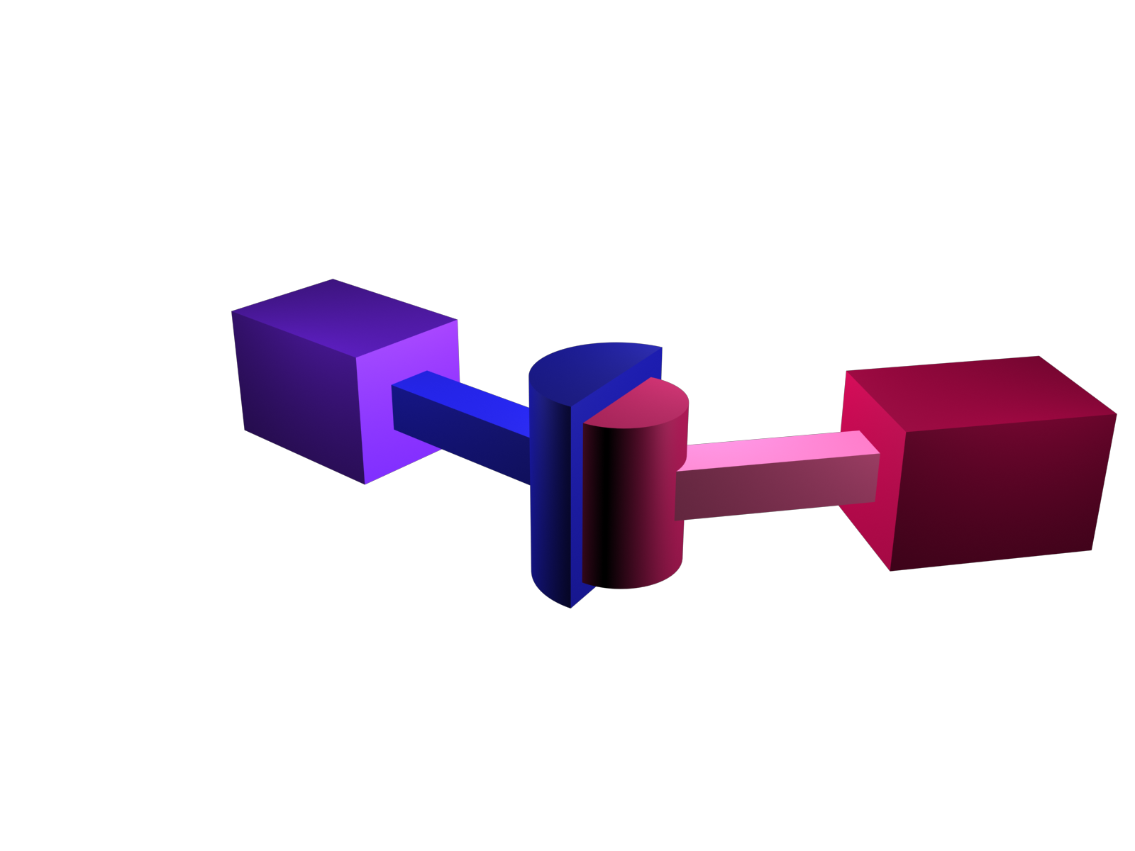 Hinge joint is a joint and constraint among two physical bodies. Hinge joint is one of three basic physical joints. Hinge joint is a loop connection between two physical bodies. Bodies, connected with hinge joint, can rotate relatively each other along only one axis.